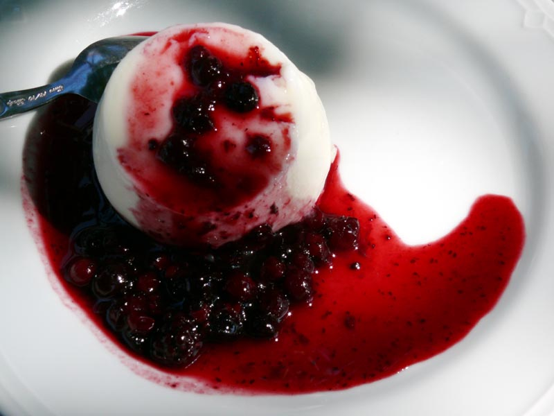 Panna cotta with fruit sauce